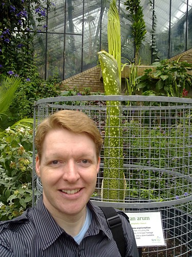 Stuart Meeson, next to Titan arum at RBG Kew